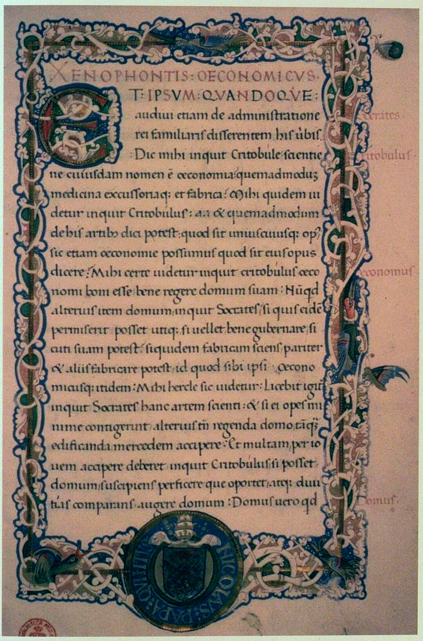 Lampugnino Birago’s Latin translation of the dialogue „Oeconomicus“ in the dedication copy for Pope Nicholas V, the manuscript Florence, Biblioteca Medicea Laurenziana, Strozzi 51, fol. 3r.